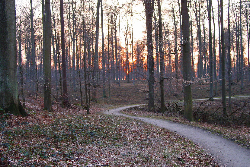 Sunset in the Foret de Soignes, Belgium. Taken by David Edgar in Spring 2006.